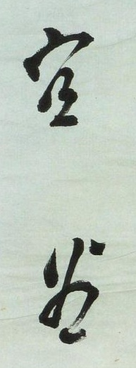 Osachi Hamaguti's autograph.